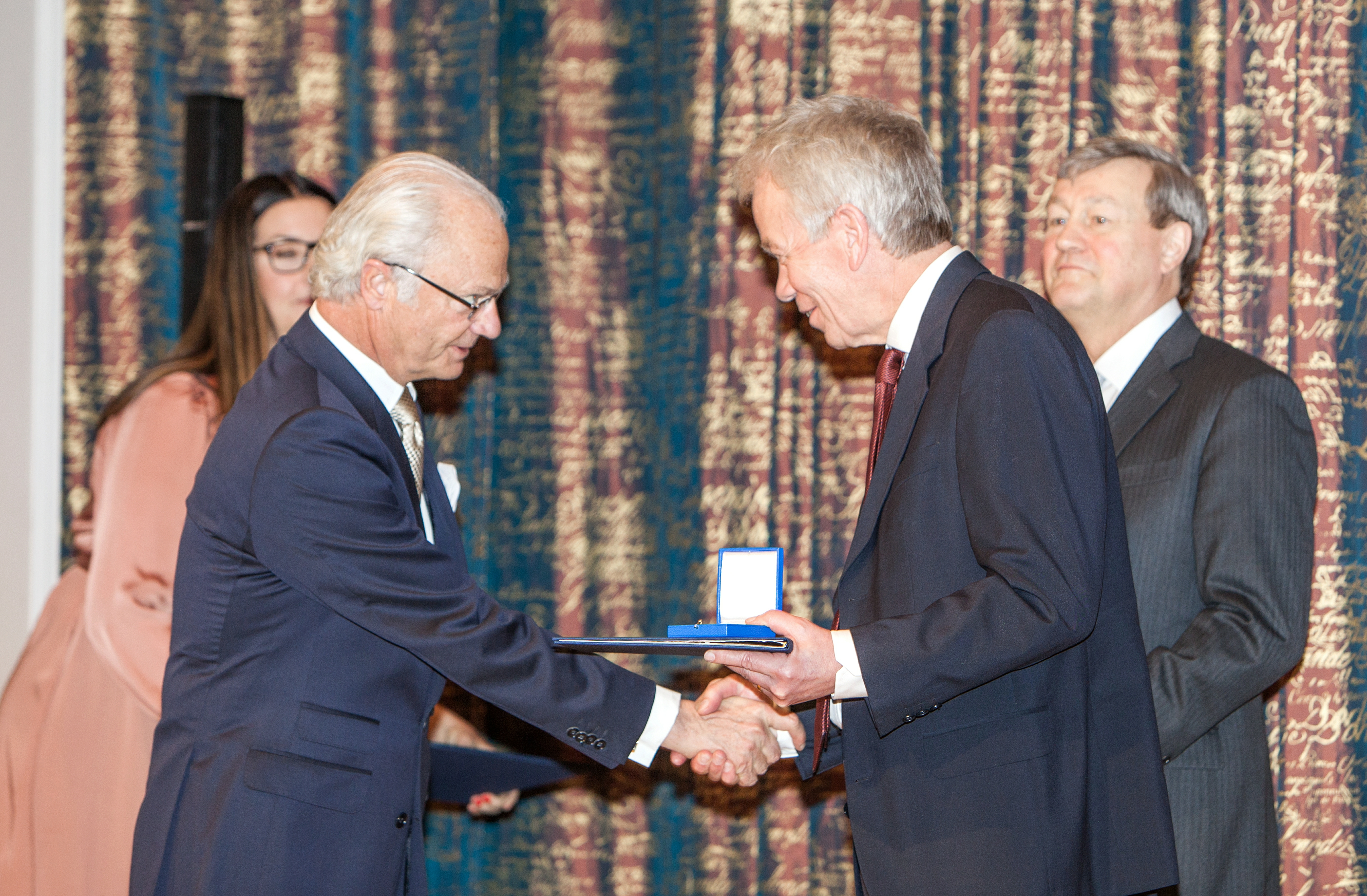 Carl XVI Gustaf of Sweden awards The Crafoord Prize in Polyartheritis 2013 to Lars Klareskog